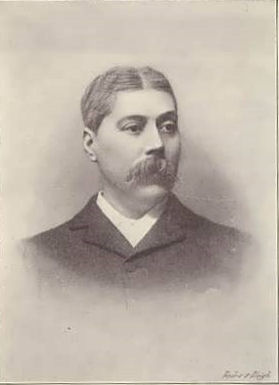 William Greet in a review of The Lady Slavey - The Sketch. 28 November 1894 pg. 2